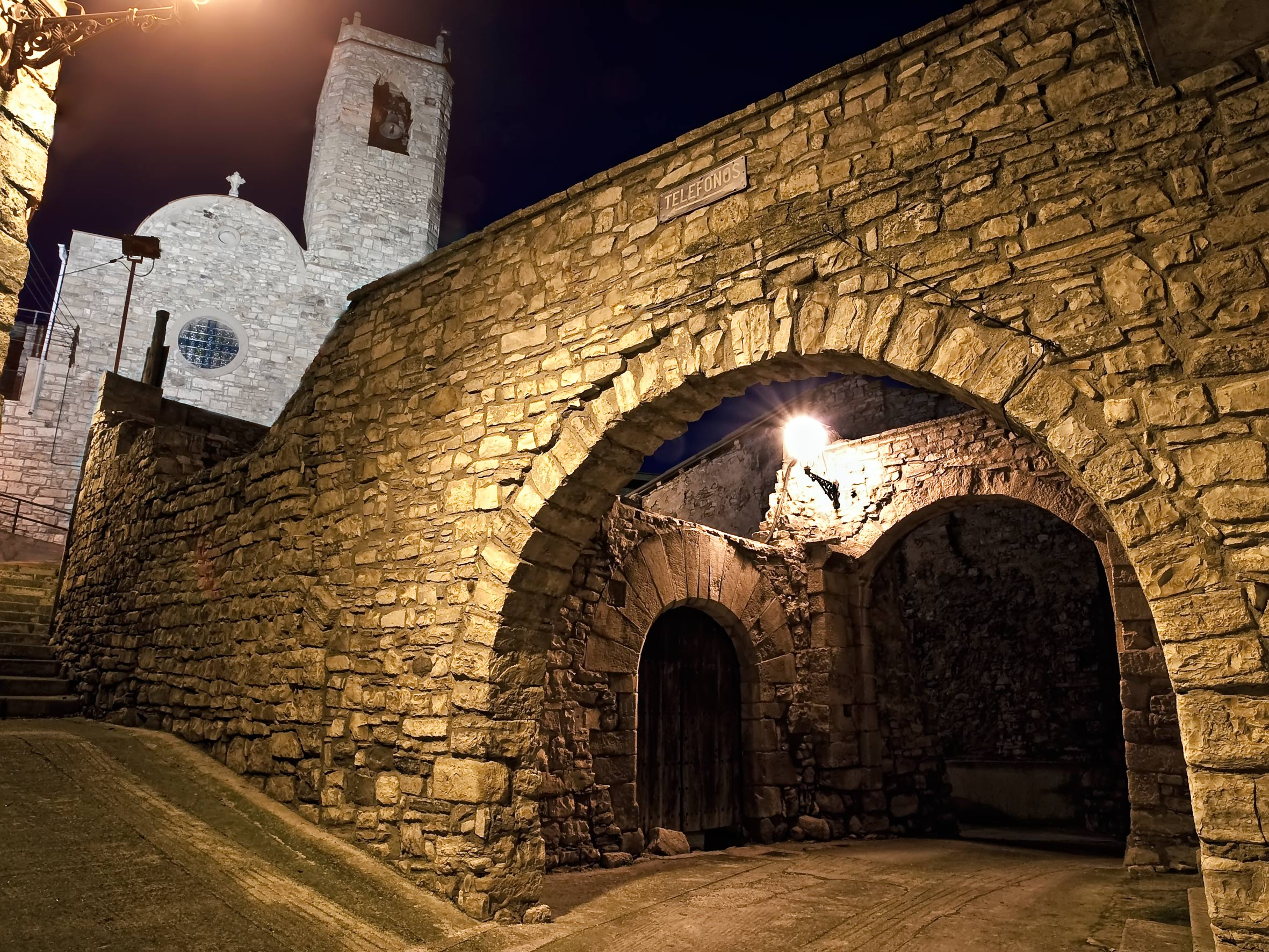 Montoliu de Segarra church (Catalonia, Spain)